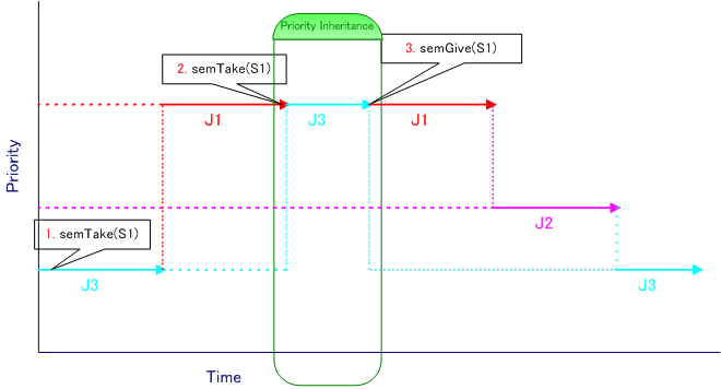 Figure it explaining "Priority Inheritance" Made by 日陰猫Joga